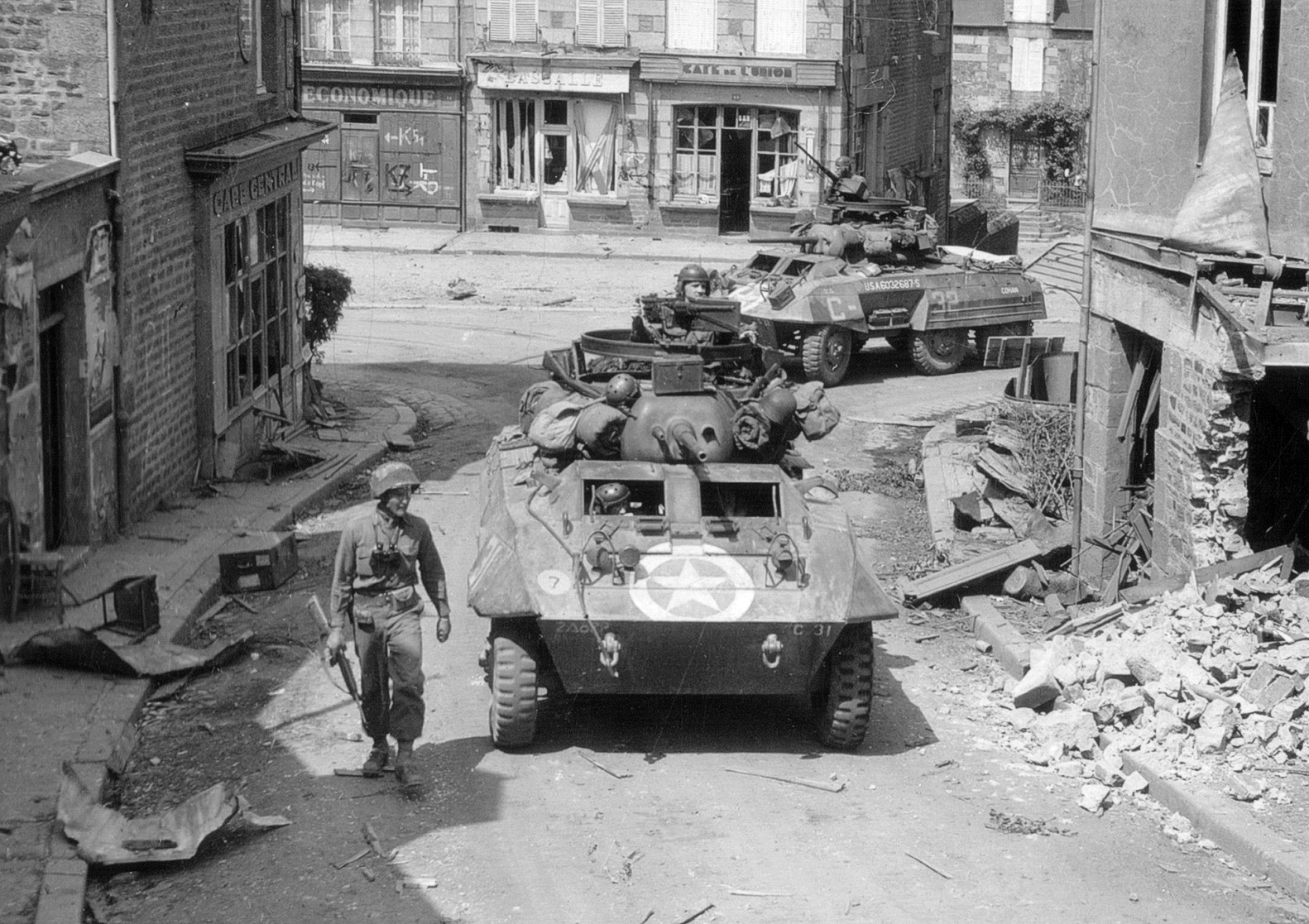 82nd Armored Reconnaissance Battalion on the move in Europe.